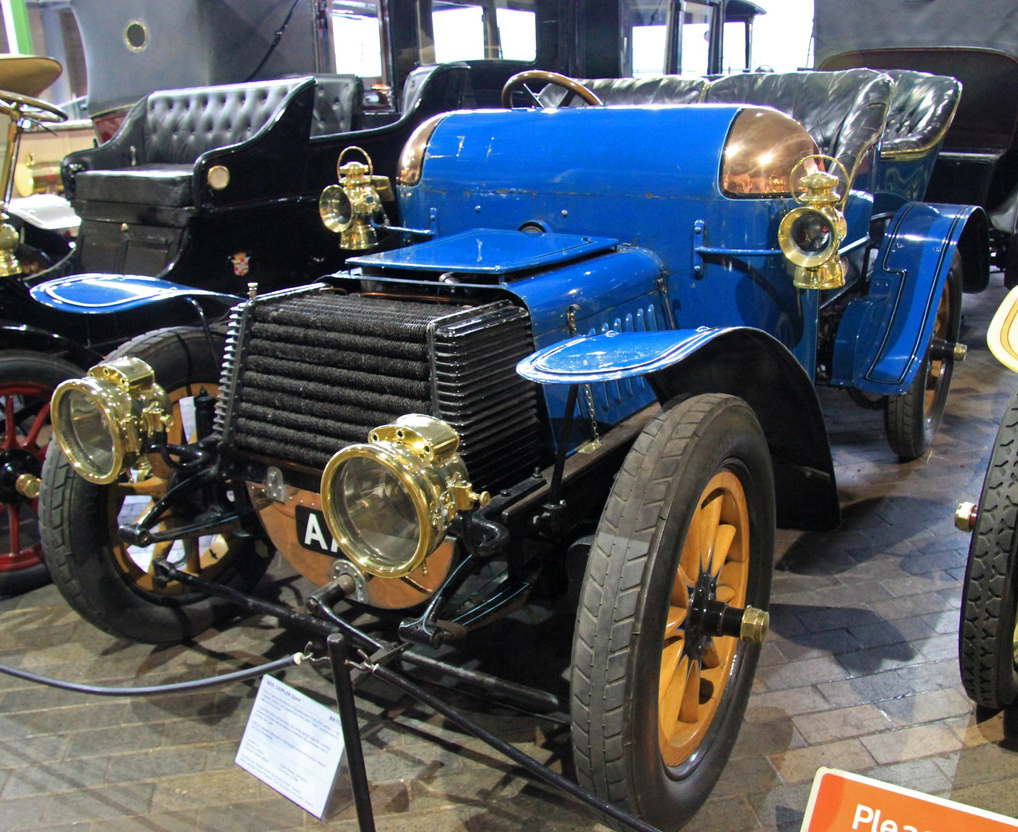 1903 Daimler 22hp British This is a typical big Daimler of the early years of the 20th century. It had a tubular radiator, but suggestions of the 1904 "flutes" could already be seen on its surround. It had chain drive and like many cars of the period, even the relatively expensive Daimler had no weather protection; the passengers had to provide their own. This car regularly takes part in the annual London to Brighton Veteran Car Run in November. Cylinders: 4 Capacity: 4503cc Power Output: Not known Maximum Speed: 45mph Price New: £1050 Manufacturer: Daimler Motor Syndicate Limited, Coventry Owner: National Motor Museum Trust (Donated by Mrs A.W.F. Smith) info source Housing a collection of over 250 automobiles and motorcycles telling the story of motoring on the roads of Britain from the dawn of motoring to the present day, the award winning (Winner - The International Historic Motoring Awards of the Year 2012) National Motor Museum appeals to all age groups. From World Land Speed Record Breakers including Campbell’s famous Bluebird to film favourites such as the magical flying car, Chitty Chitty Bang Bang and rare oddities like the giant orange on wheels. Don’t miss exciting extra features such as the Motorsport Gallery, Wheels and Jack Tucker's Garage - A permanent, multi award-winning 1930's garage has been created within the Museum, complete down to the last nut and bolt and rusty drainpipe. Whilst the building is a complete fabrication, everything in it - all the fixtures, fittings, tools and ephemera - are genuine artefacts collected over a period of 25 years.